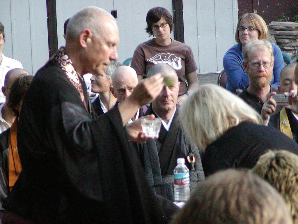 May 18 2006 at KZCI - Jukai. In the Jukai ceremony the students receive an empowerment called "Shassui" (or Shasui). Dennis Genpo Merzel Roshi is holding a pine twig. The water he sprinkles bestows a transmission of wisdom, or we can say, an awakening of innate wisdom. It purifies body and mind.